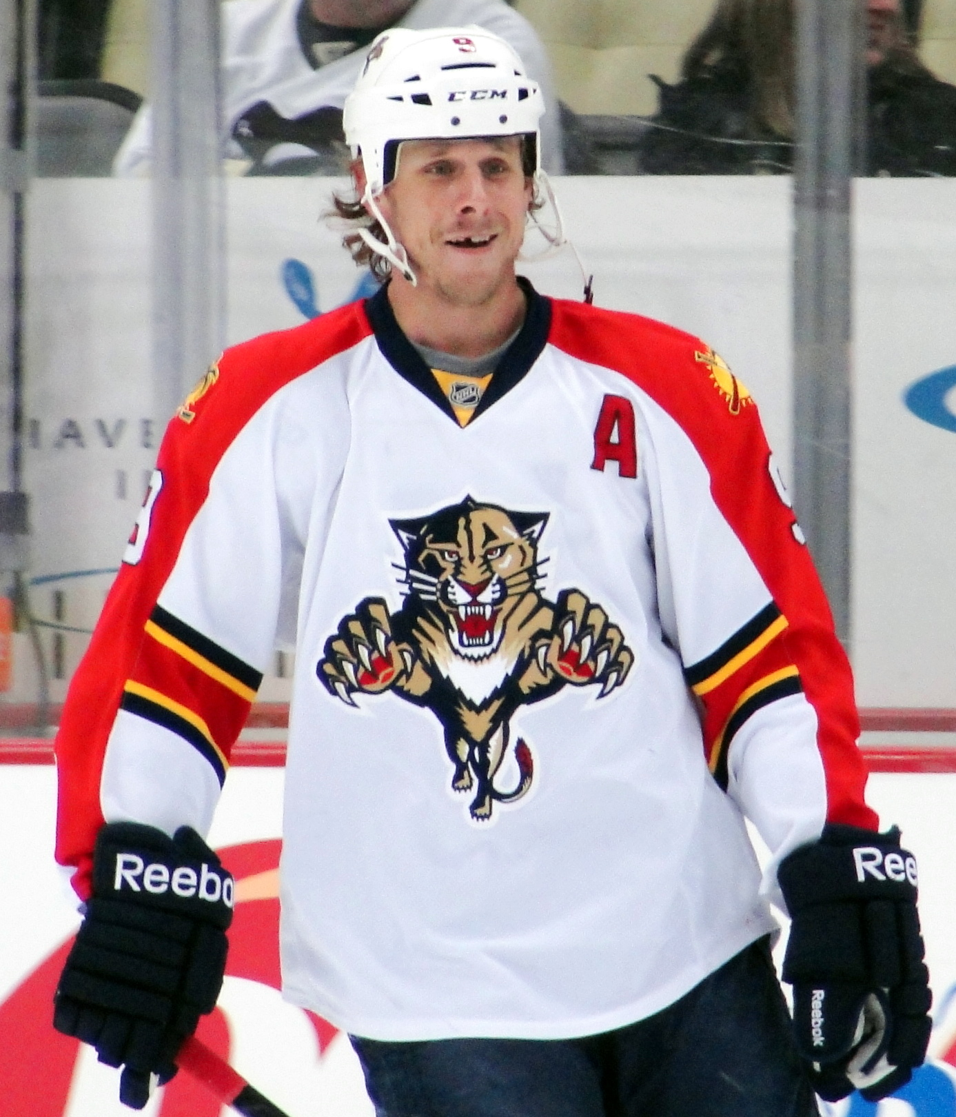 Florida Panthers forward Stephen Weiss skates against the Pittsburgh Penguins, March 9, 2012 at Consol Energy Center in Pittsburgh, PA.